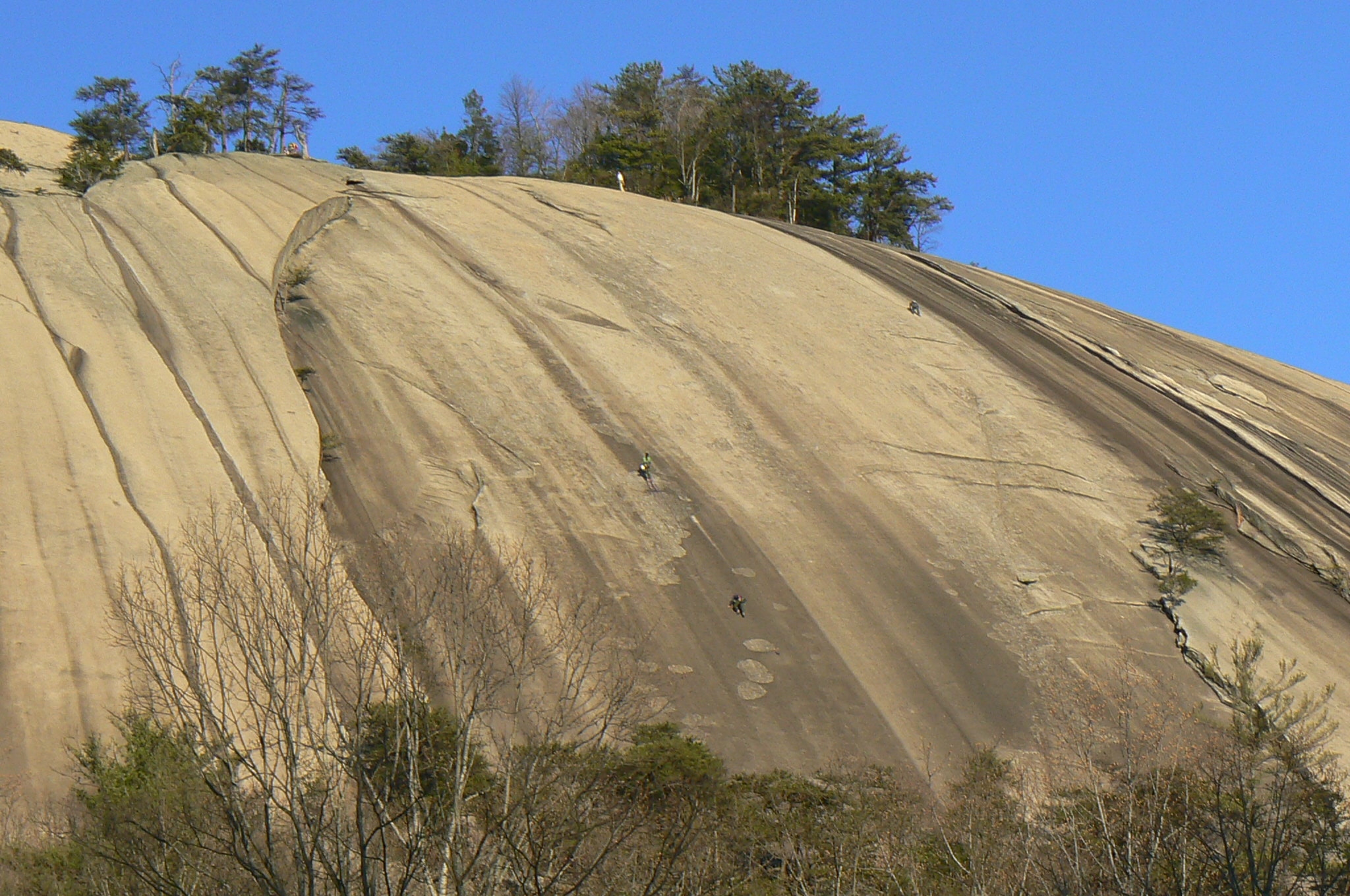 Climbers on Stone Mountain, North Carolina. An example of a granitic dome pluton. Within Stone Mountain State Park.